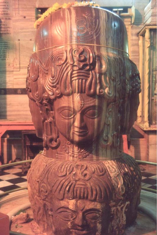 Author:Chandra Prakash Baherwani. I own this picture and release it to public domain.